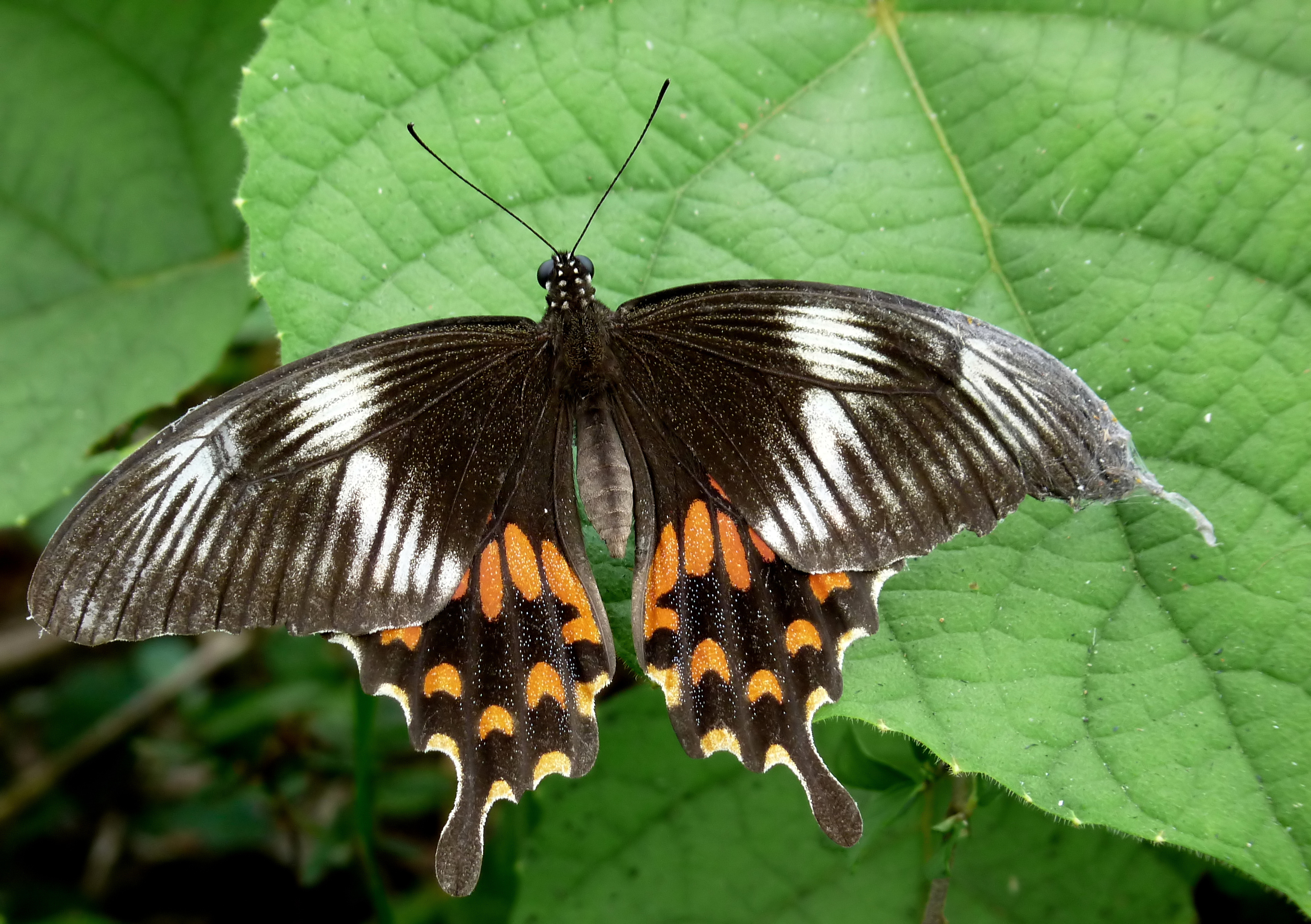 Common Mormon (Papilio polytes) Female, form Romulus. The Common Mormon (Papilio polytes) is a common species of swallowtail butterfly widely distributed across Asia. This butterfly is known for the mimicry displayed by the numerous forms of its females which mimic inedible Red-bodied Swallowtails, such as the Common Rose and the Crimson Rose. This female form mimics the Crimson Rose and is common over its range. It is easy to differentiate the mimics from models by the colour of their body—the models are red-bodied and the mimics are black-bodied. Taken at Kadavoor, Kerala, India.